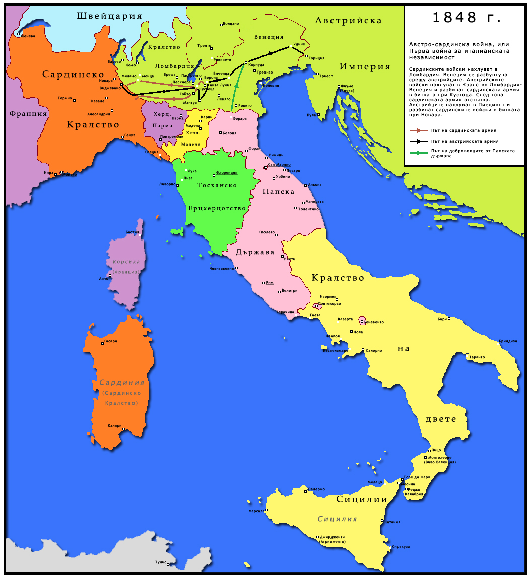 Map of Italy in 1848 in Bulgarian: First Italian War of Independence. After many revolts in various states in the Italian peninsula, the Sardinian king Charles Albert decided to declare war to the Austrian Empire. The Sardinian troops invaded the Kingdom of Lombardy-Venetia and quickly occupied Lombardy. They clashed with the local troops in the battle at the bridge of Goito, in the battle of Pastrengo and in the battle of Santa Lucia. The city of Venice rebelled against Austrian rule and the Republic of San Marco was declared. The Austrian army entered the Kingdom of Lombardy-Venetia to help the local army. They occupy the insurgent city of Udine and in the battle of Cornuda they confront the troops of volunteers, come from the countries of Central Italy, and easily won over them. The Austrian army continued its march aimed at Verona and Mantova, where they were not able to win in the battles fought there, but they hastily defeated the Sardinian army at Custoza. The Sardinian troops were compelled to retreat in Piedmont. Austrians invaded Piedmont and easily won over Sardinian troops in the battle of Novara. At the same time the Austrians crushed the Venice uprising and the gouvernment of the Republic of San Marco.